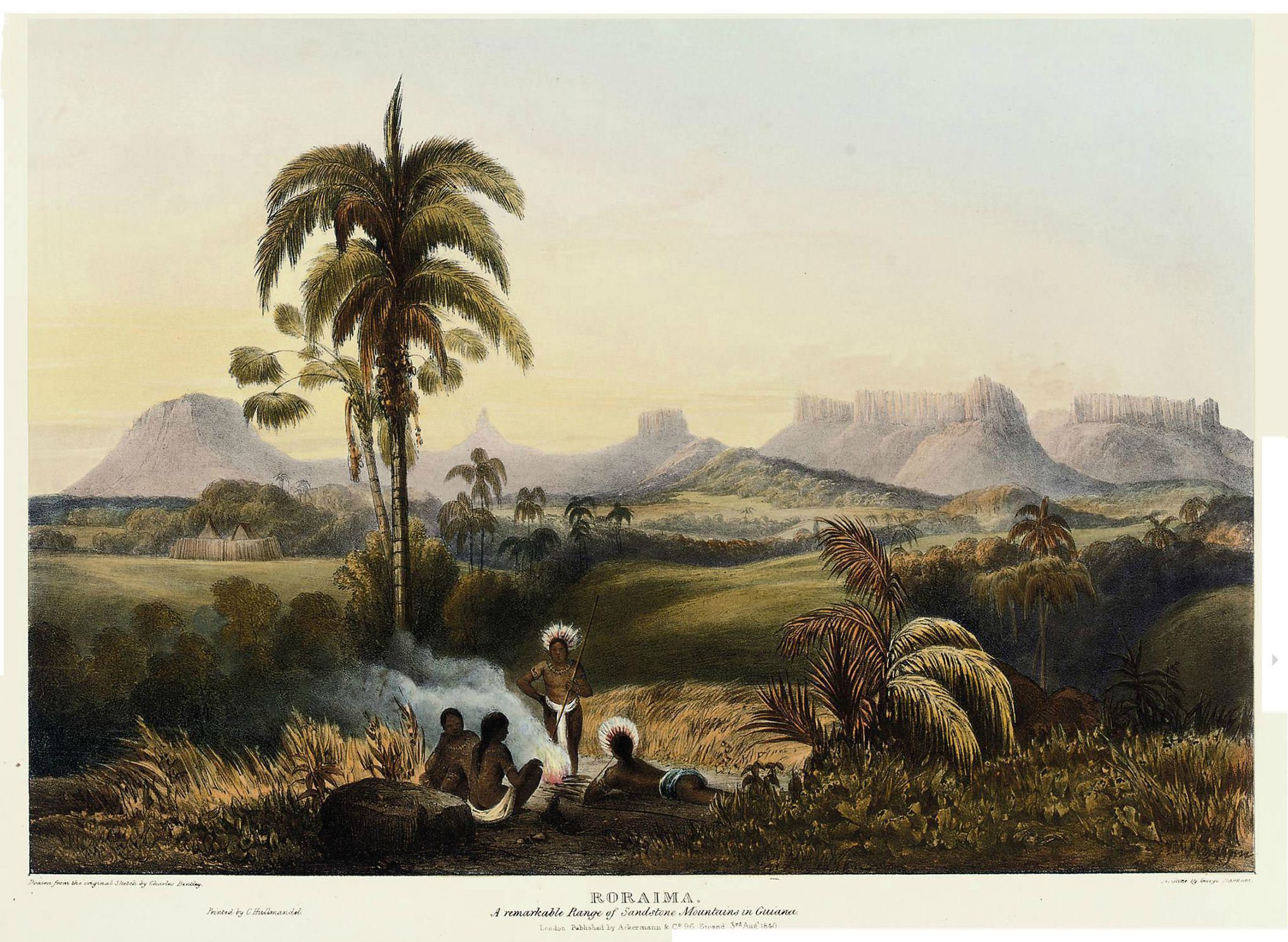 "Roraima, A Remarkable Range of Sandstone Mountains in Guiana", After Charles Bentley and Robert H. Schomburgk - Views in the Interior of Guiana: Map of Guayana; Title plate; The Comuti or Taquiare Rock, on the River Essequibo; Ataraipu or the Devils Rock; Pirara and Lake Amucu; Roraima; Esmeralda on the Orinoco; Brazilian Fort of St Gabriel; Christmas Cataract; Watu Ticaba; and Caribi Village